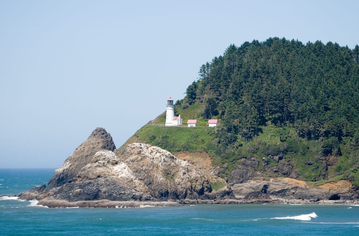 Heceta Head Lighthouse